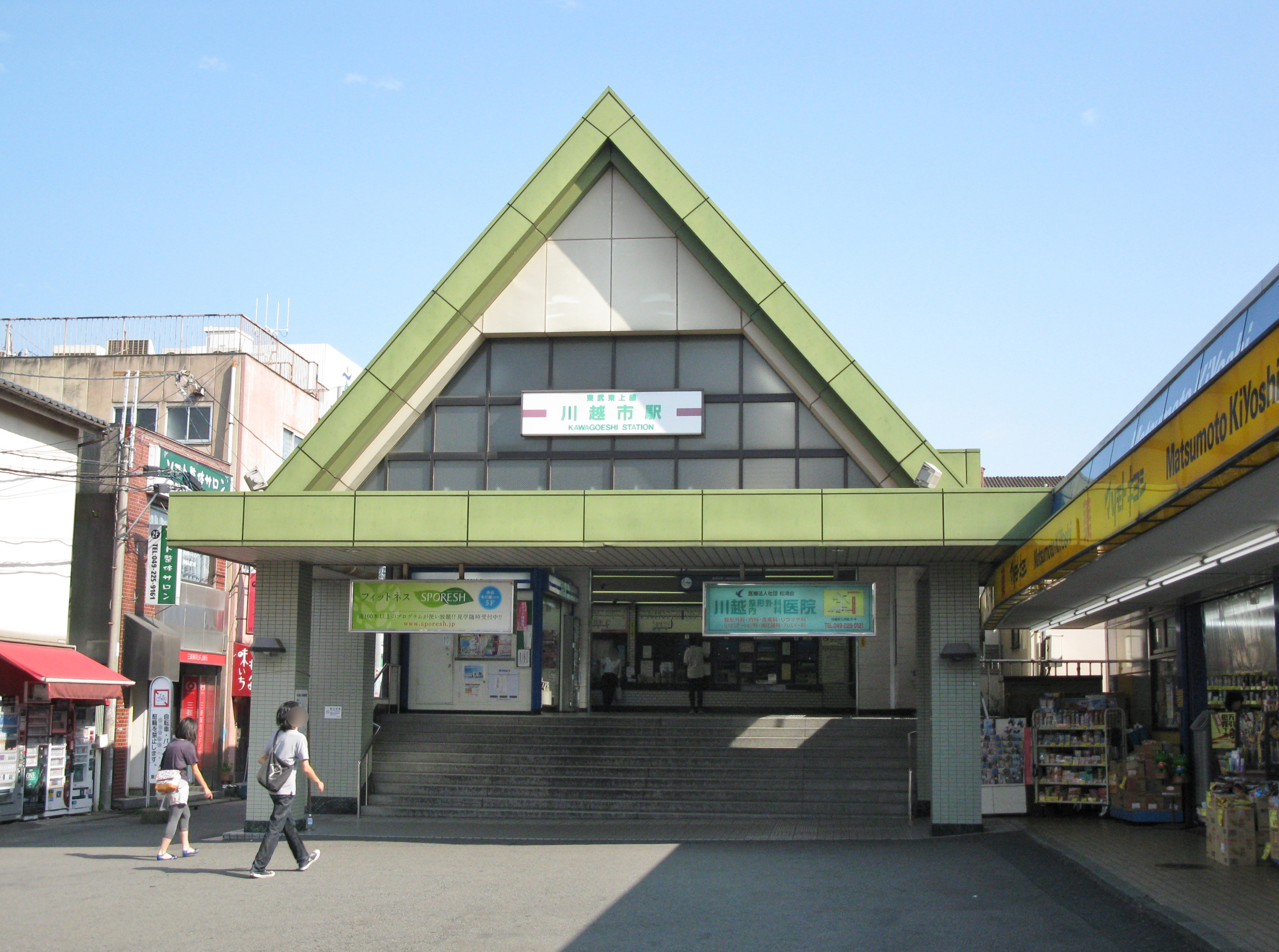 The entrance to Kawagoeshi Station on the Tobu Tojo Line in Kawagoe, Saitama, Japan